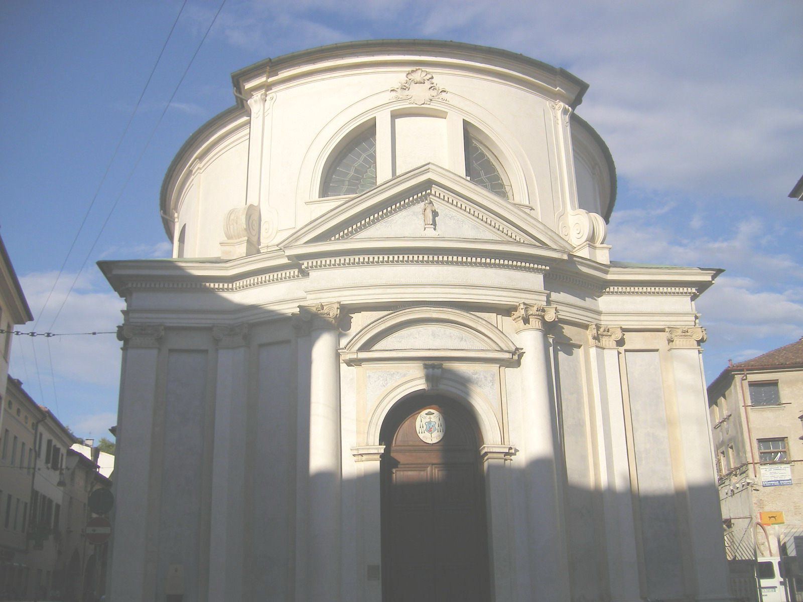 Treviso